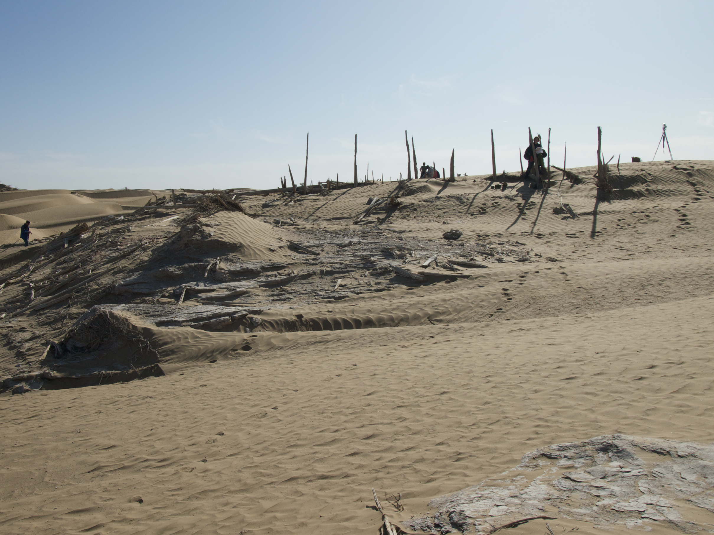 Niya, N.I. to southeast with Susan showing Stein's find place of tablets, 13 November 2011.